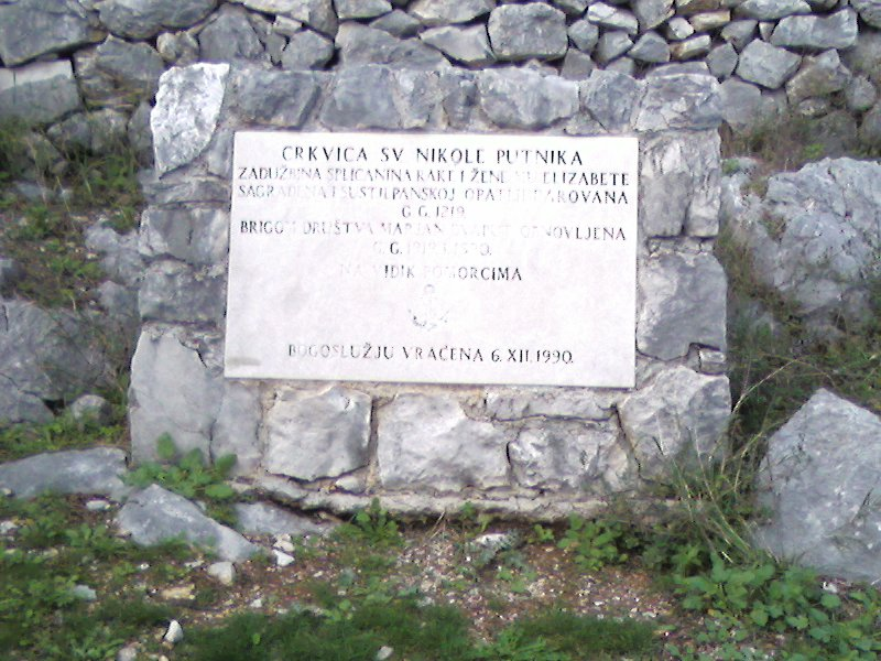 Table near St. Nicholas church, Marjan, Split